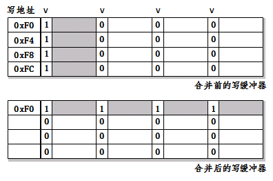 合并写缓冲